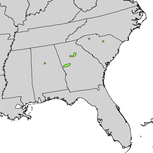 Range map of Quercus georgiana — Georgia oak or Stone Mountain oak.